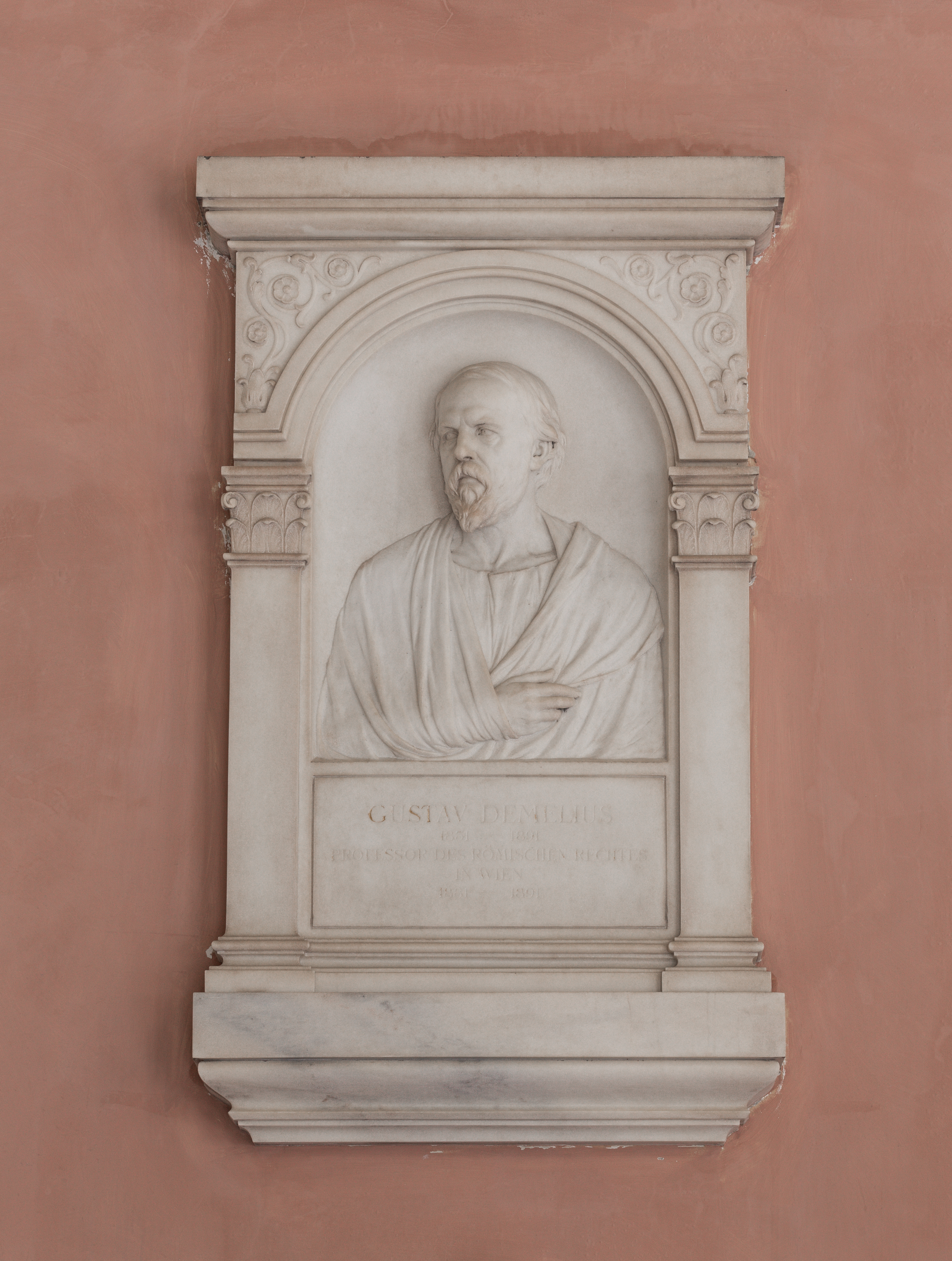 Gustav Demelius, portrait relief (white marble) in the Arkadenhof of the University of Vienna, (Maisel# 5 ). Artist: Wilhelm Seib (1854-1923), unveiled 1897